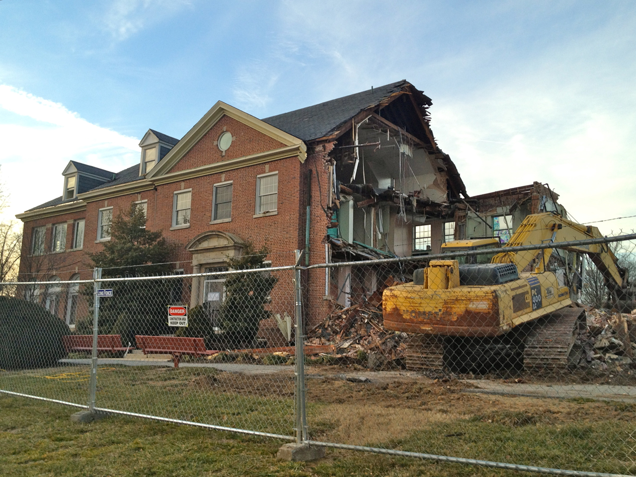 Kelso Home for Girls / YMCA demolition from south-east